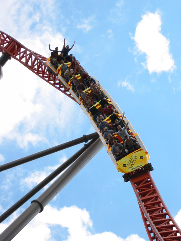 The Rollercoaster Expedition GeForce (Holiday-Park, Haßloch)